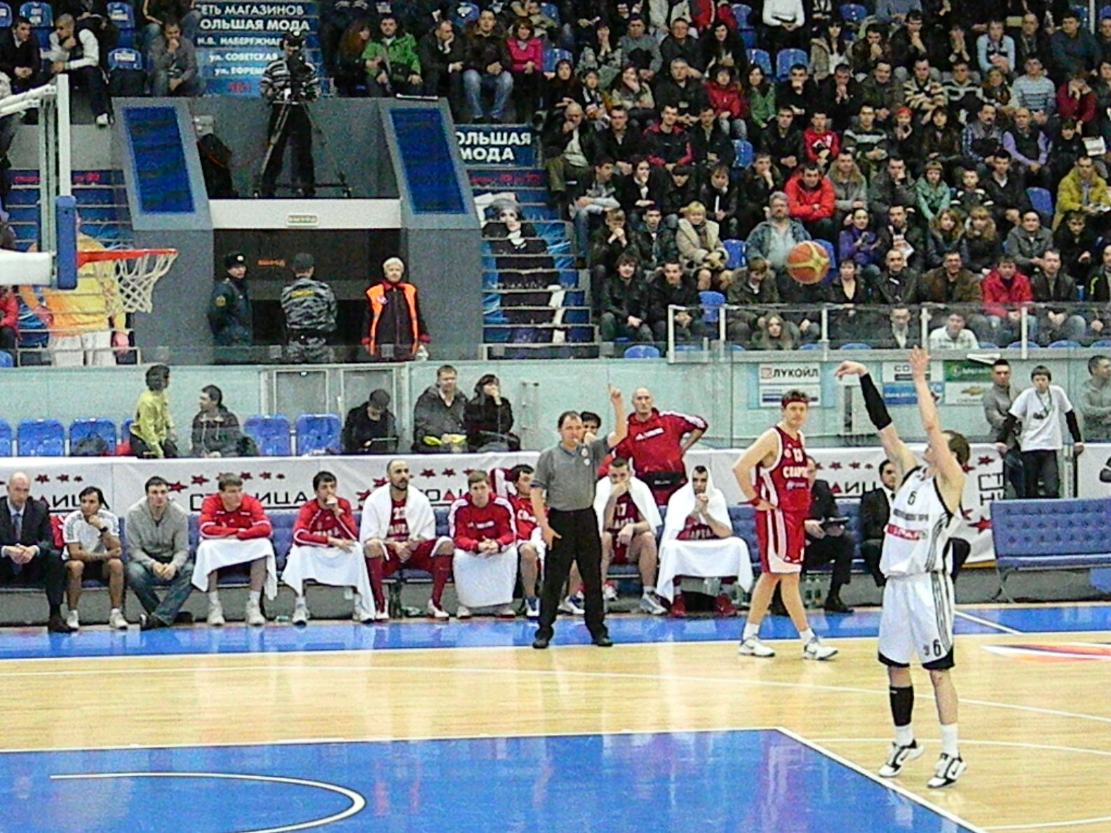 Free throwing for technical foul by Andrei Ivanov, russian basketball player from BC Nizhny Novgorod in the game against Spartak Saint-Petersburg on March 19th, 2011